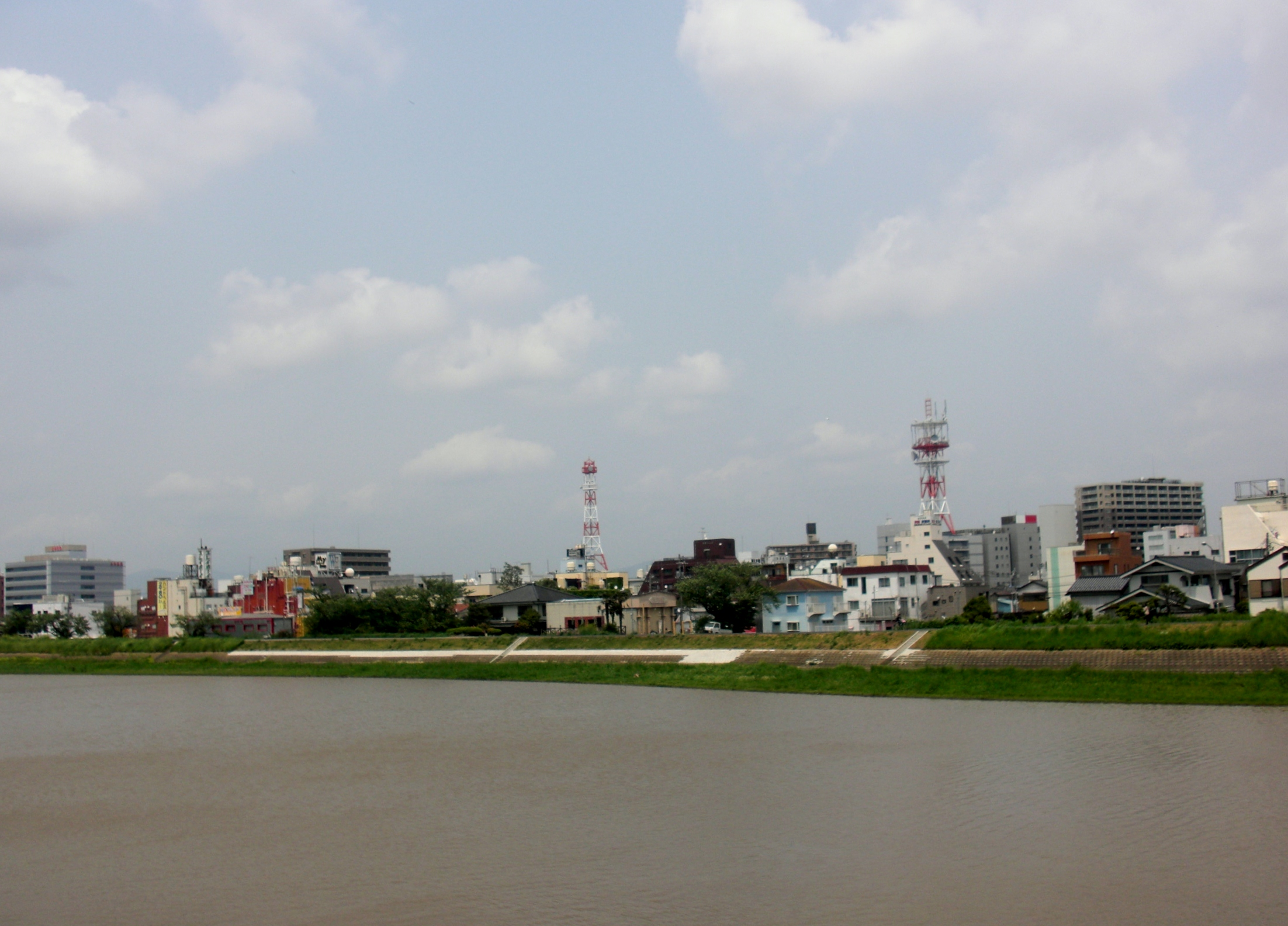 This is a landscape of Sakuramachi, Tsuchiura, Ibaraki, Japan.